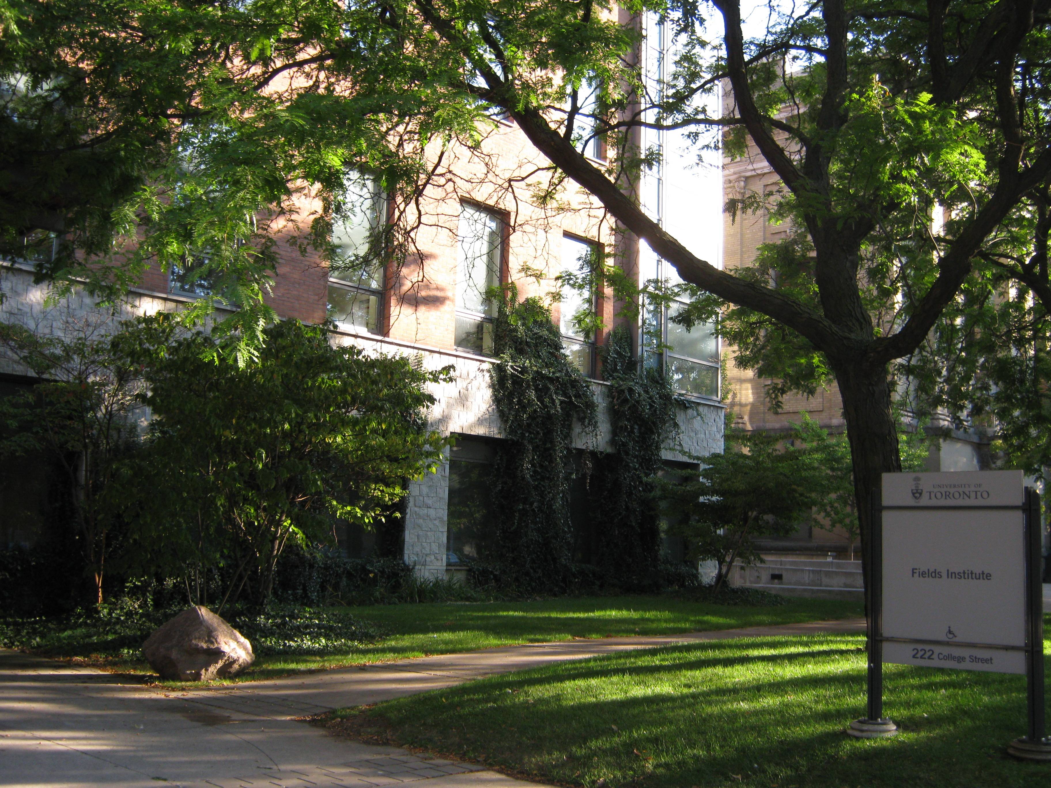 Entrance to Fields Institute